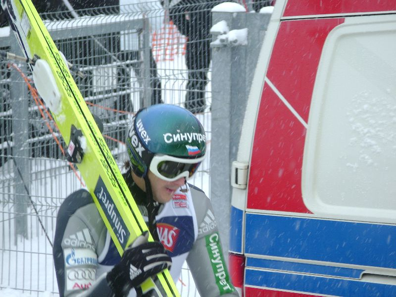 ski jumper Dimitry Ipatov from Russia during the World Cup in Zakopane on 27-1-2008